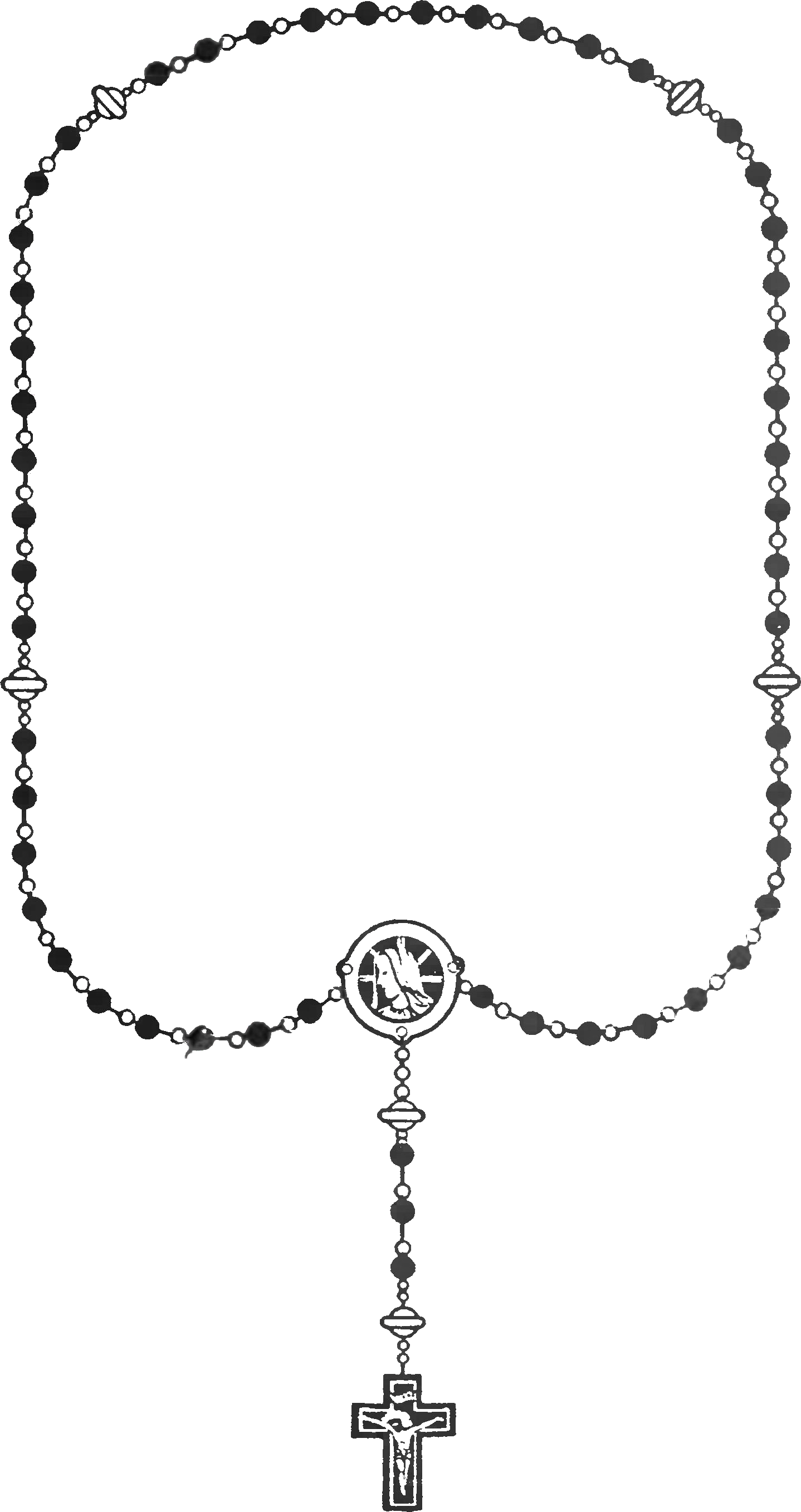 Image of a rosary